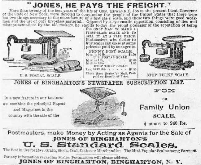 Ad for Jones Scales, Binghamton, New York, owned by New York Lieutenant Governor Edward Franc Jones.